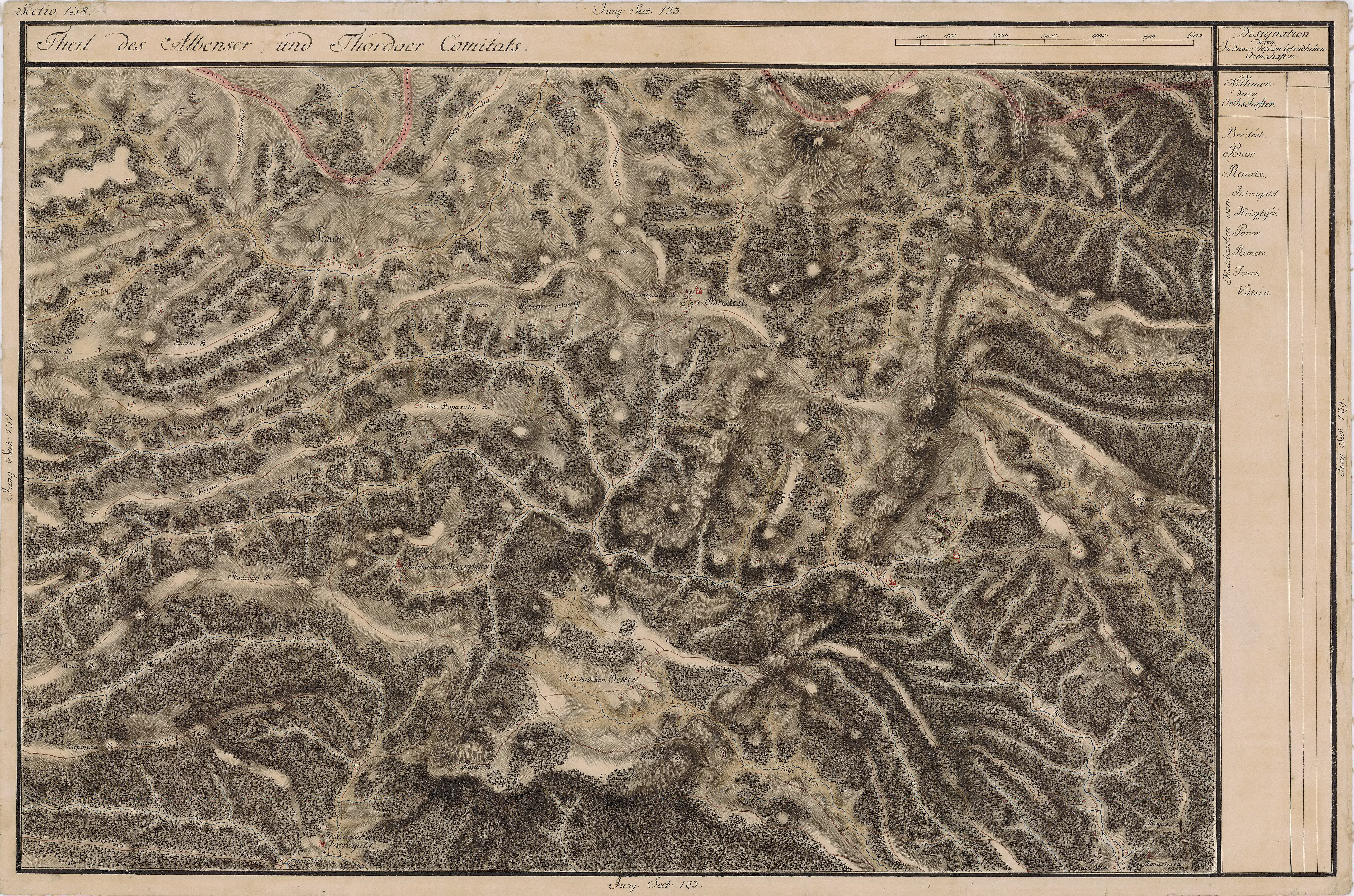 Grand Duchy of Transylvania, 1769-1773. Josephinische Landaufnahme pg.138